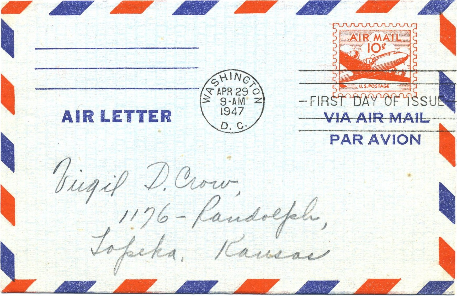 The first U.S. aerogram, then called a air letter, the modern transformation of the letter sheet. First day of Issue, 29 April 1947. Used to Topeka, Kansas, USA. Back inscription: "If anything is enclosed, this letter will be sent by ordinary mail".